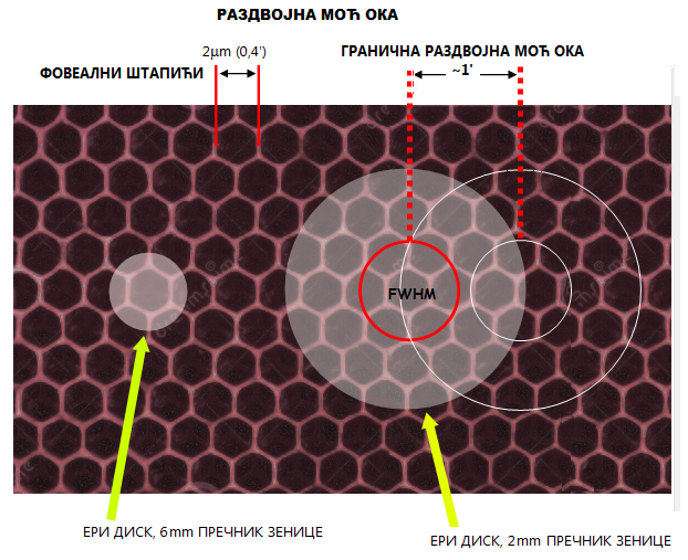 РАЗДВОЈНА МОЋ ОКА